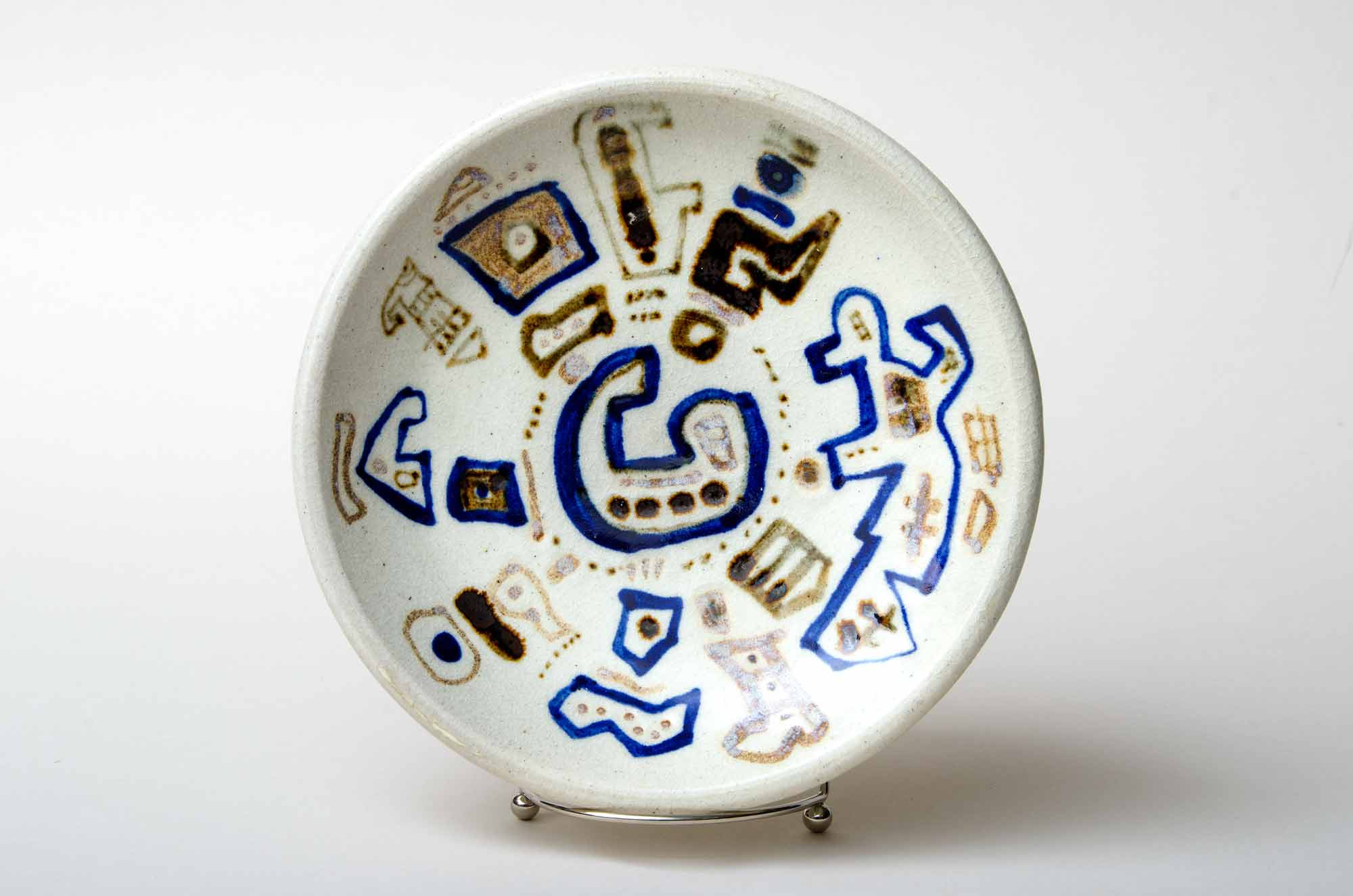 Ceramic plate